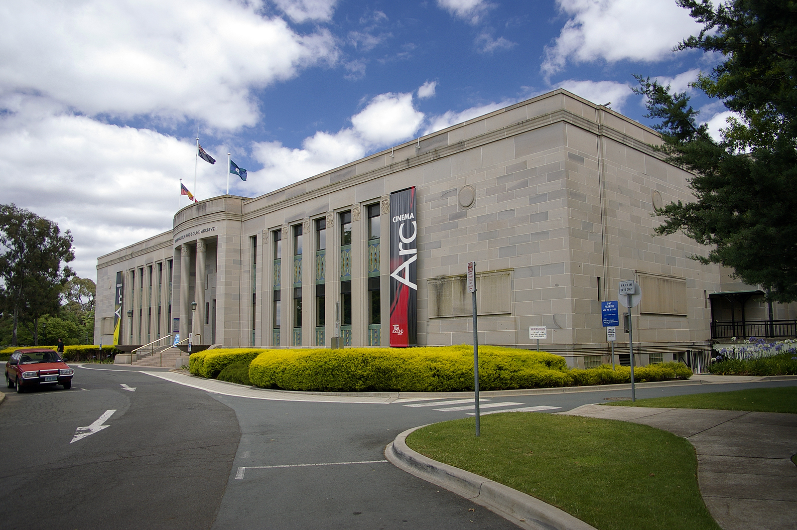 National Film and Sound Archive viewed near McCoy Circuit in Canberra, Australian Capital Territory.